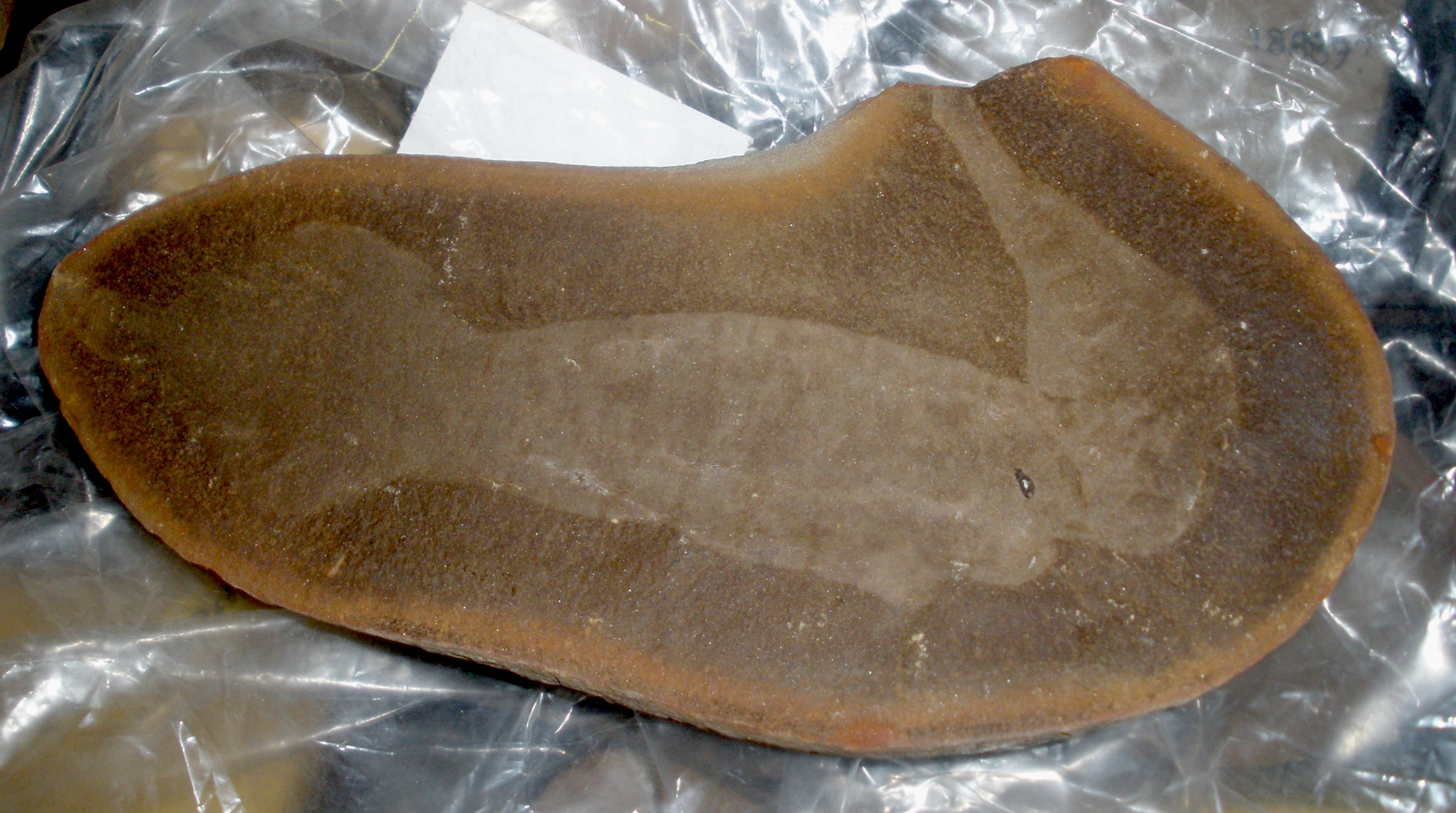 Fossil of Tullymonstrum gregarium, an extinct animal Took the photo at Museo di Storia Naturale, Milano